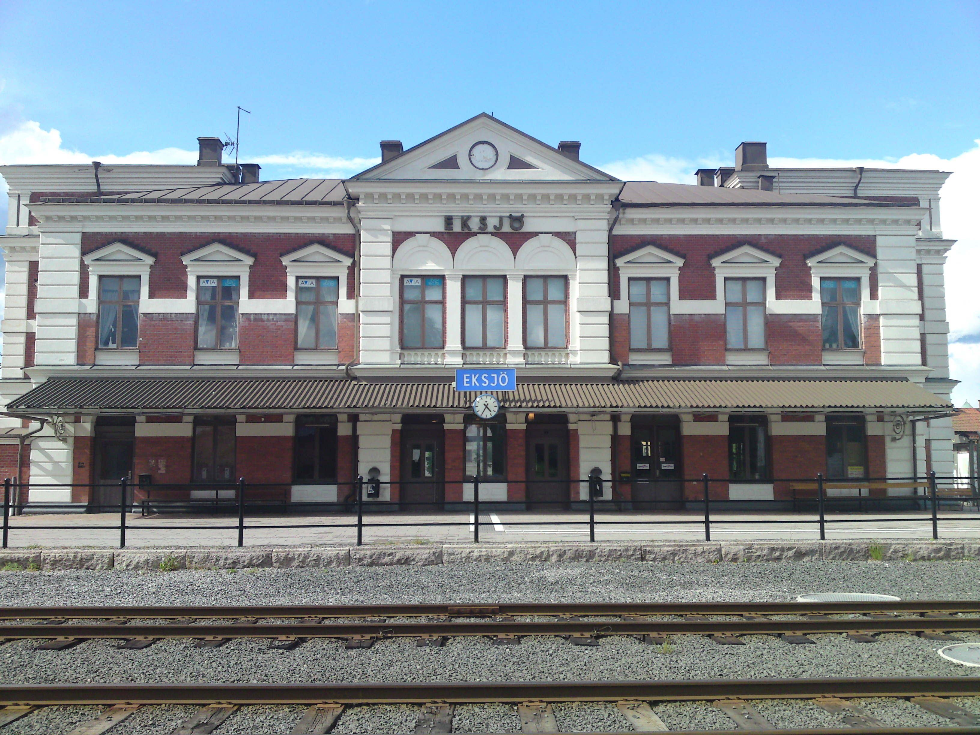 Eksjö station, Småland, Sweden